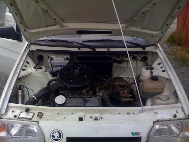 Skoda Favorit engine